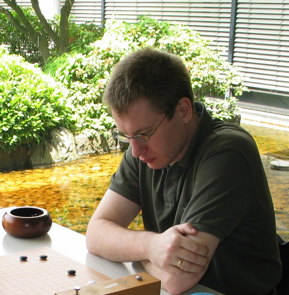 Franz-Josef Dickhut, 6Dan, former German Go Champion